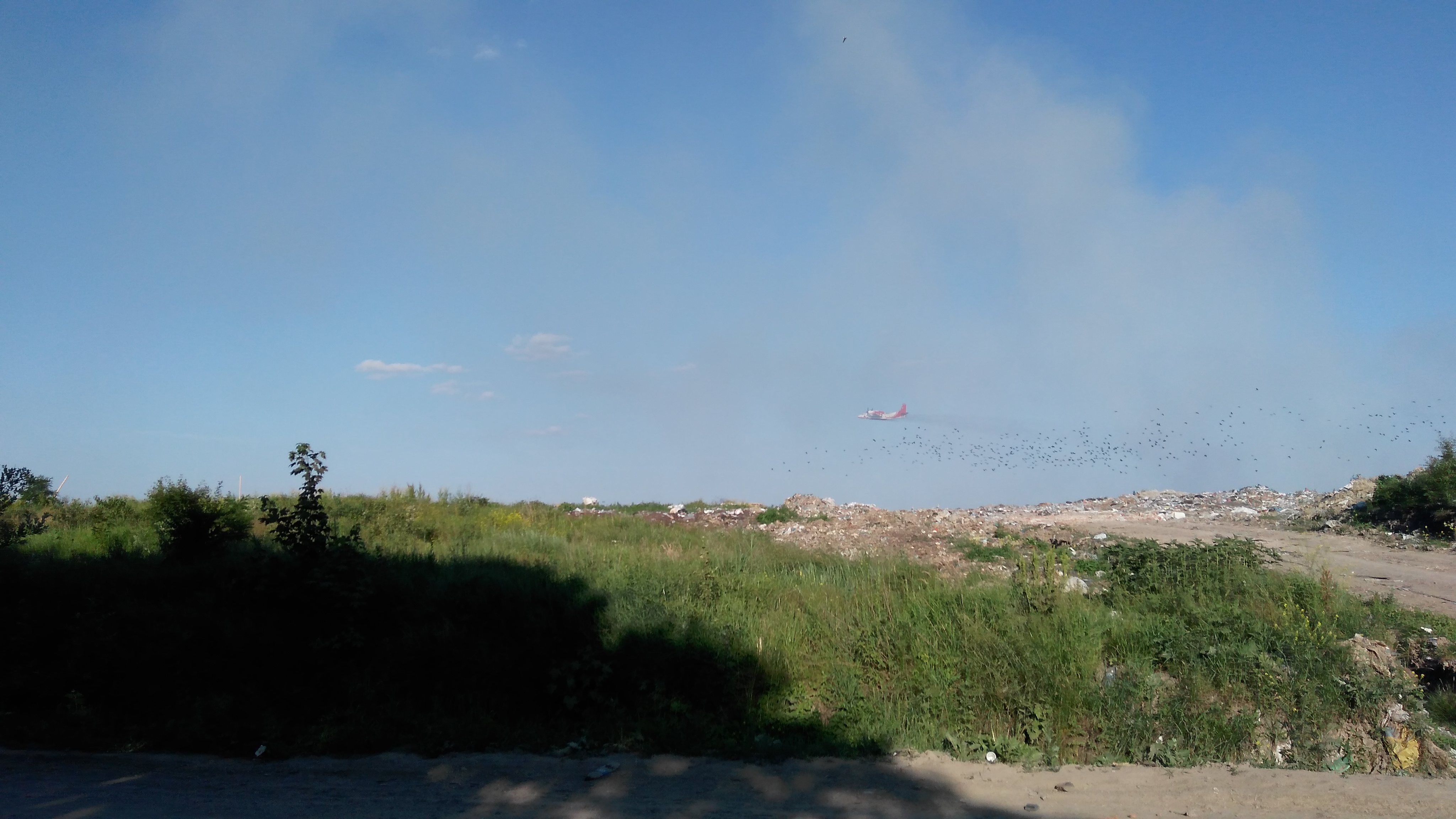 Fire figting on the Lviv dump